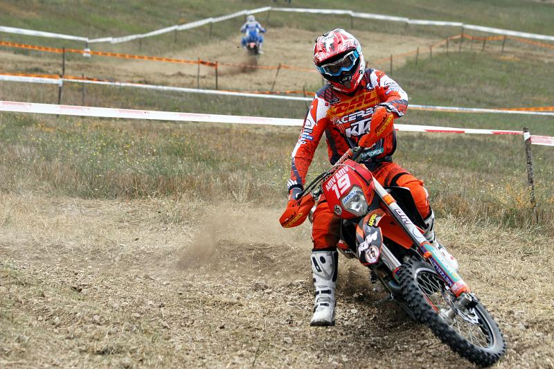 Juha Salminen riding his KTM E2 bike at the 2008 World Enduro Championship Grand Prix of Italy in Piediluco.